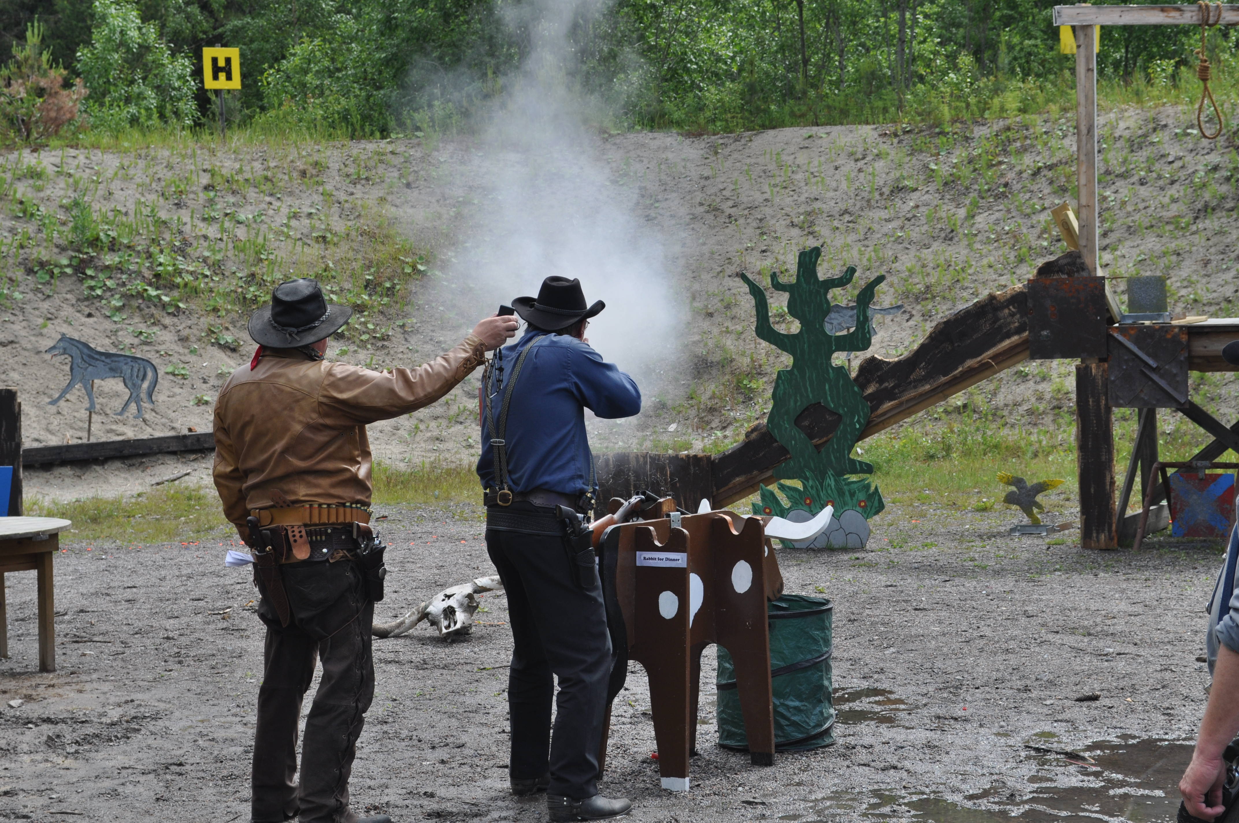 Cowboy Action Shooting, a shooting sport using weapons and clothing styles from the taming of the West